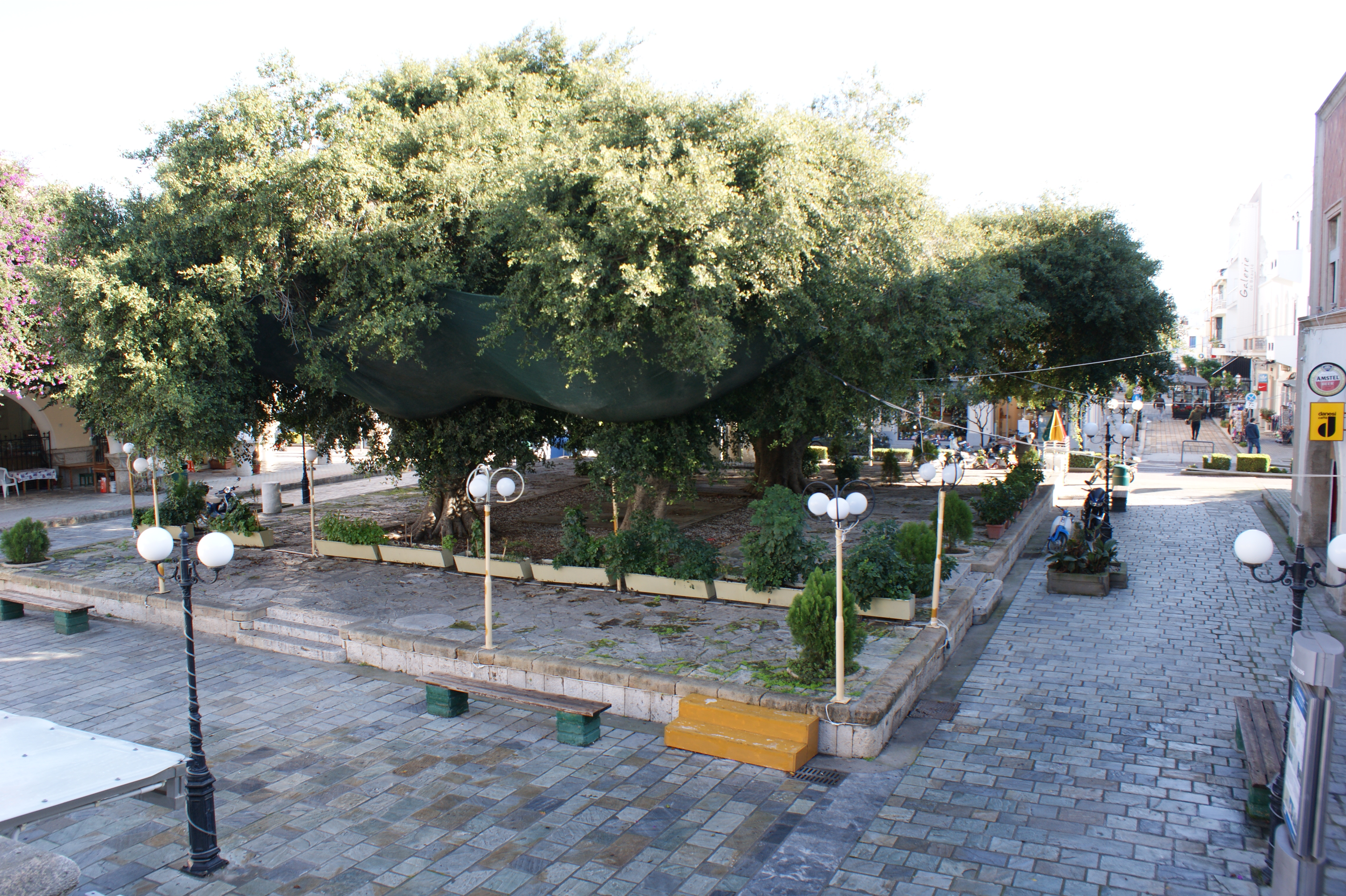 Square at the Church of Saint Paraskevi (Agia Paraskevi).